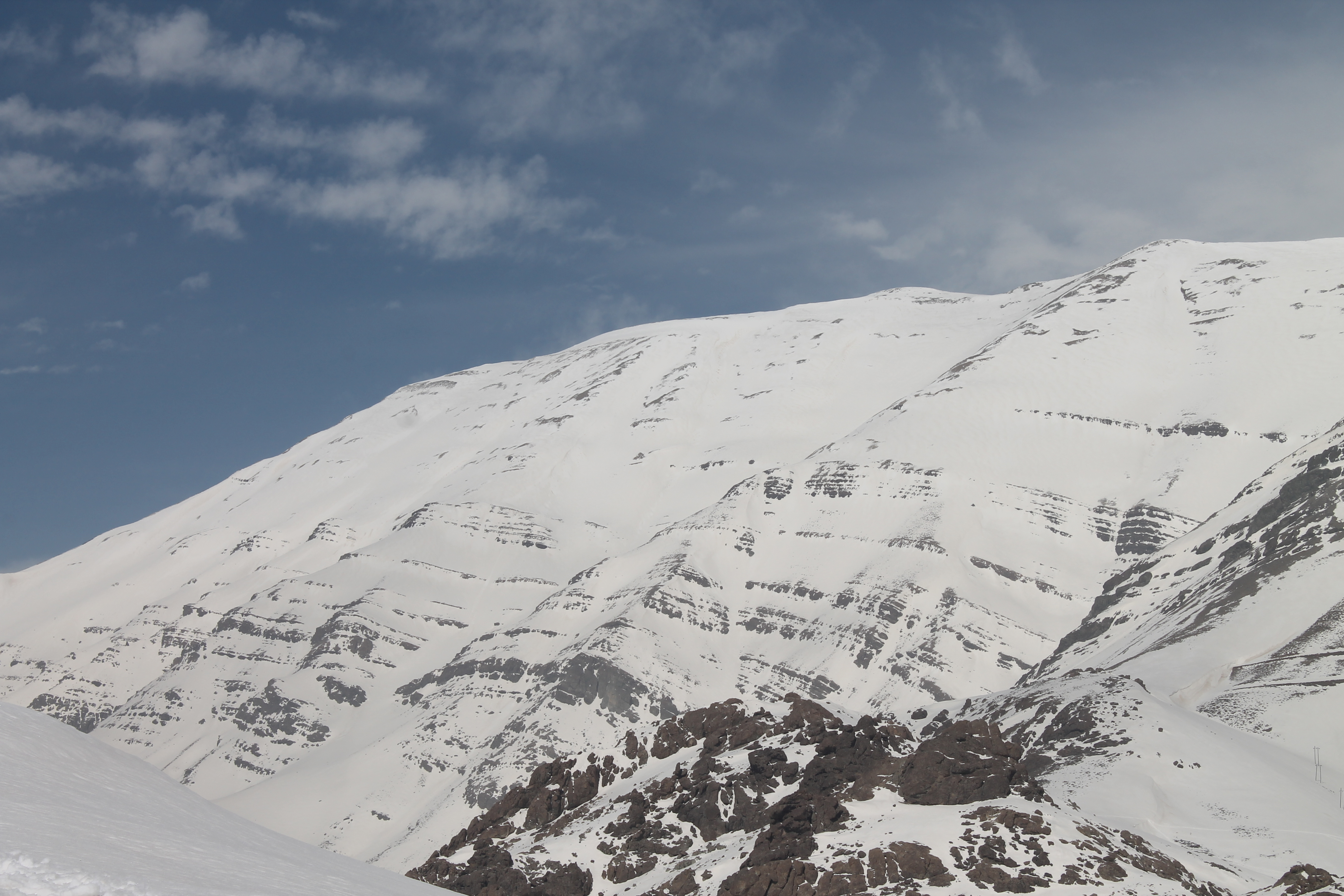 march 2013